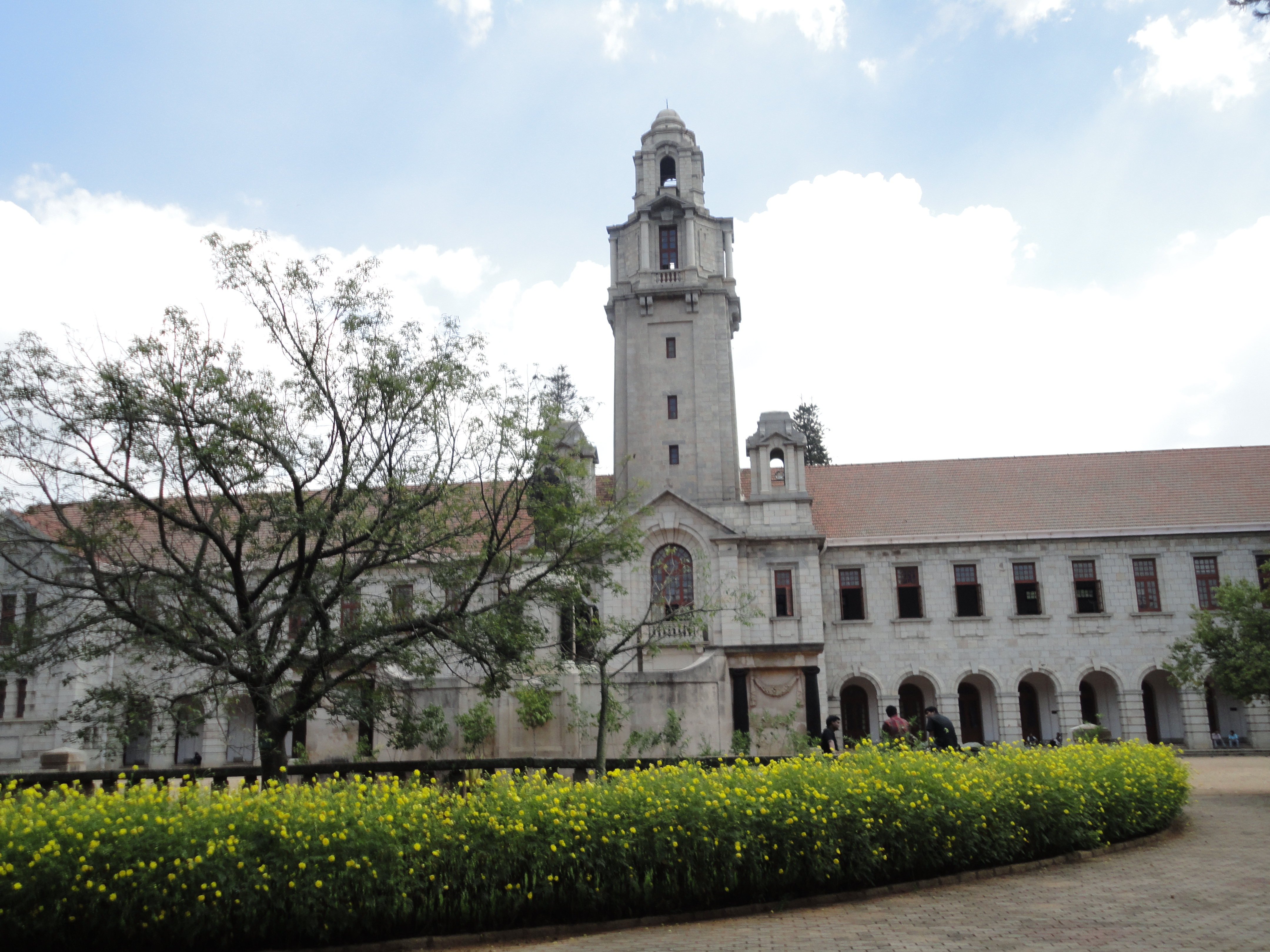 The convocation hall of the Indian Institute of Science, Bangalore